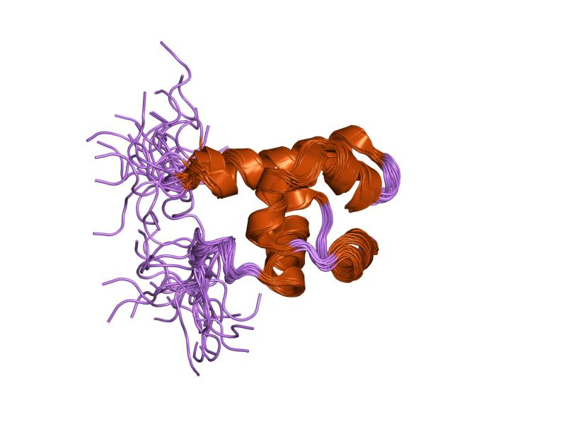 Cartoon representation of the molecular structure of protein registered with 1uqv code.